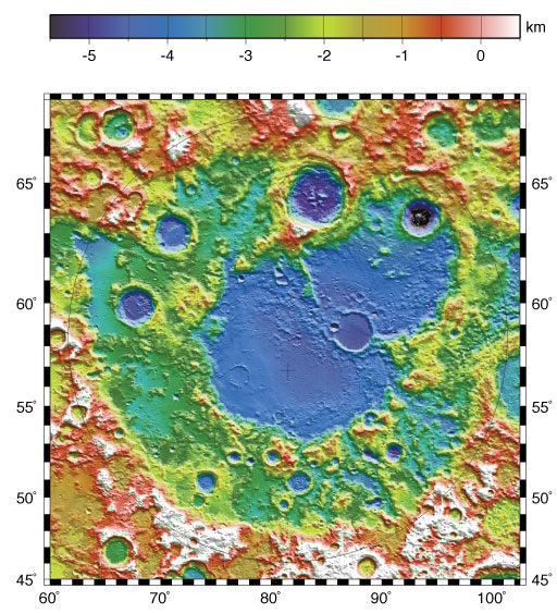 Humboldtianum Basin on the Moon. Image created by LOLA (Lunar Orbiter Laser Altimeter). Located along the northeastern limb of the Moon (centered at approximately 56.8 N, 81.5 E), Humboldtianum Basin is a region of interest for NASA. LOLA data show that the 650 km diameter basin is more than 4.5 km deep. Humboldtianum Basin is estimated to have formed during the Moon’s Nectarian Period, approximately 3.92-3.85 billion years ago. Many other multi-ring impact basins are also believed to have formed during this time period, including Crisium Basin. In the inner ring of Humboldtianum Basin is Mare Humboldtianum (Humboldt’s Sea). LOLA data reveal the relatively smooth, flat floor of the mare. The younger mare is believed to have formed during the Late Imbrian, approximately 3.8-3.6 billion years ago. Also visible in the basin are smaller craters that were partially filled in by the mare lava. Mare Humboldtianum was named after explorer Alexander von Humboldt (1769-1859) and is one of only two maria named after people, the other being Mare Smythii named after British astronomer William Henry Smyth (1788-1865).